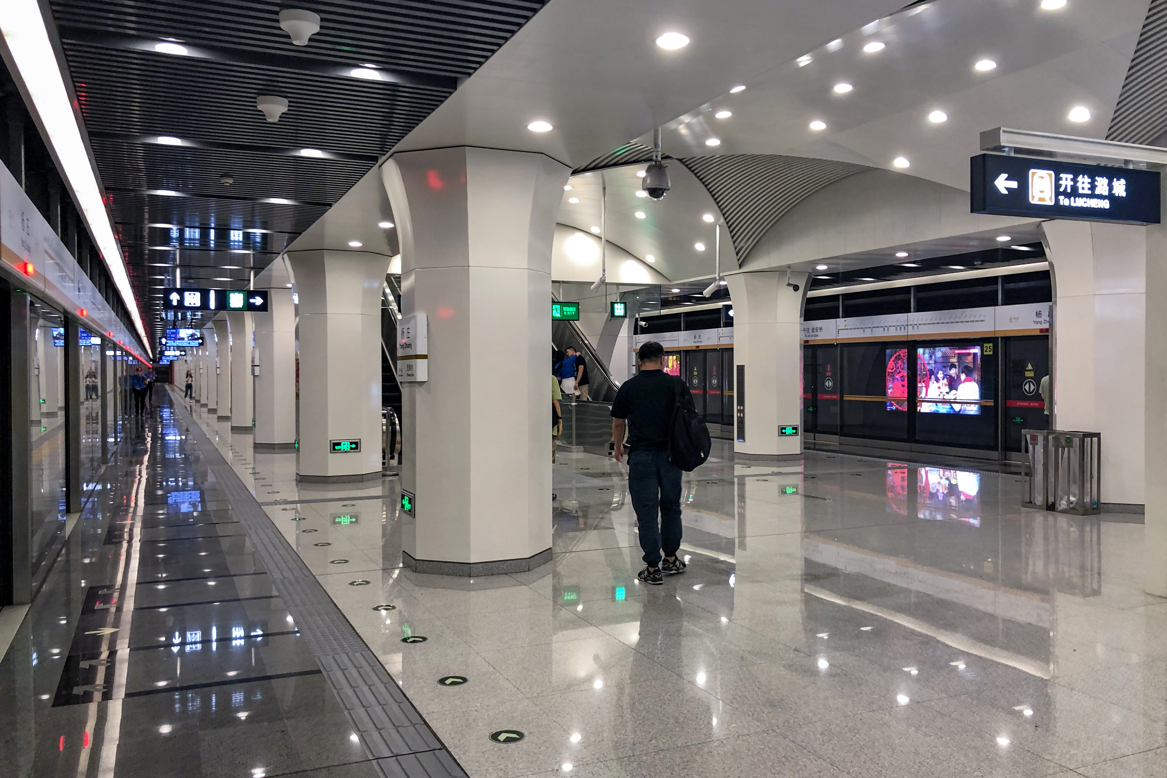 Yeung Chong Station. Collect the stations of Line 6 west...